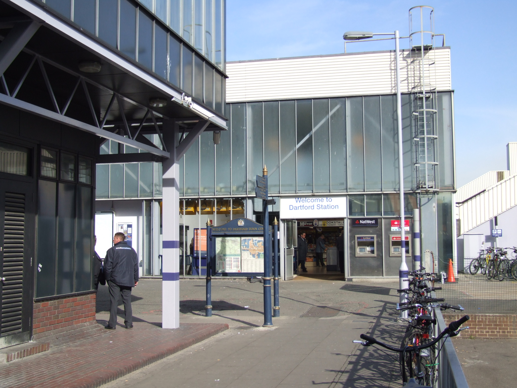 Entrance Hall, Dartford railway station